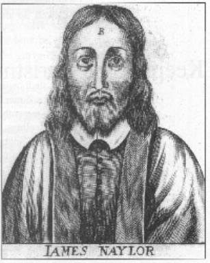 Portrait of James Nayler (1618–1660)